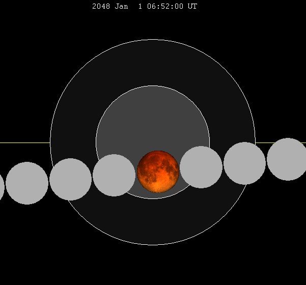 January 2048 lunar eclipse chart of moon's path through the earth's shadow. thumb